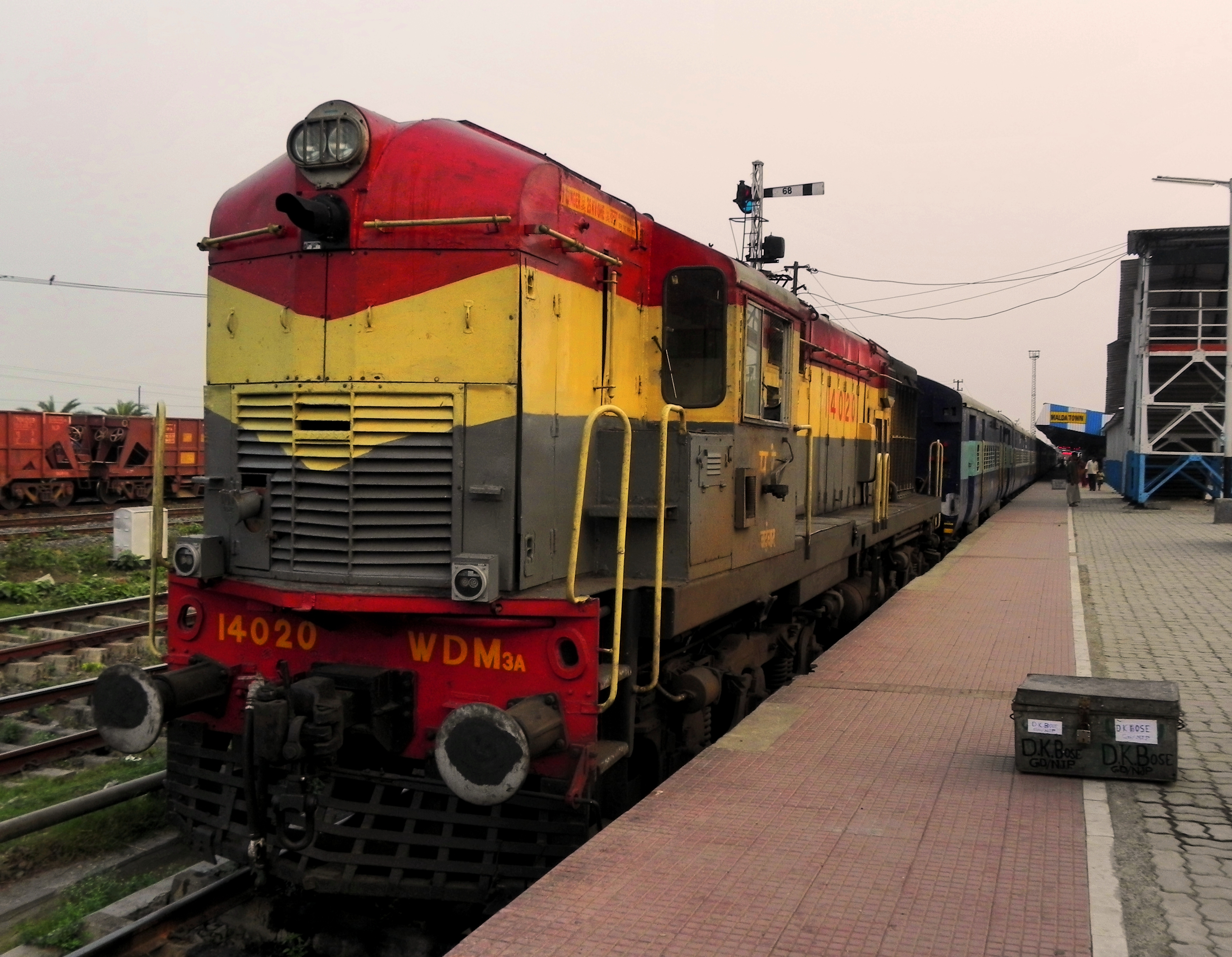 Azimganj bound 53028 (MLDT-AZ) Passenger with BWN based WDM-3A loco - 14020 at Arapur, West Bengal